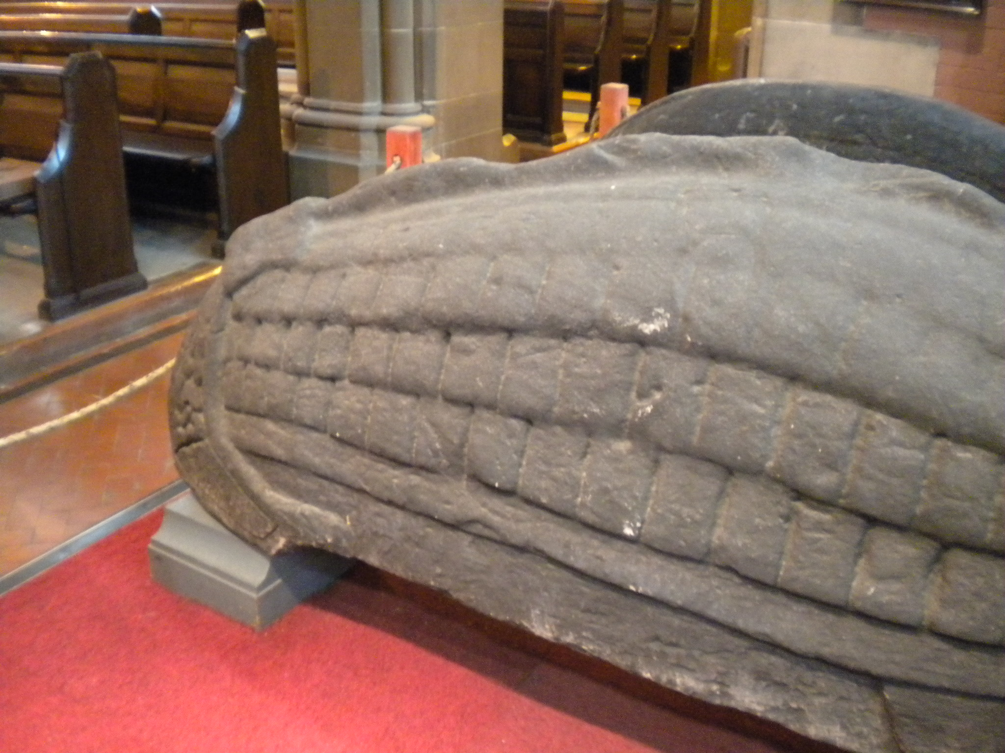 This is one of the 31 carved stones found in the churchyard of Govan Old Church, Glasgow and brought into the church in Victorian times. The hogbacks are believed to represent the roof of a Viking house.